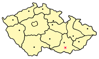 Location of village Dolni Vestonice in the Czech Republic